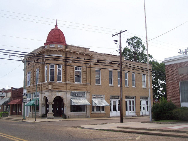 From flickr: This insurance building in downtown Fordyce now contains a steak house....I love those Spanish revival details.